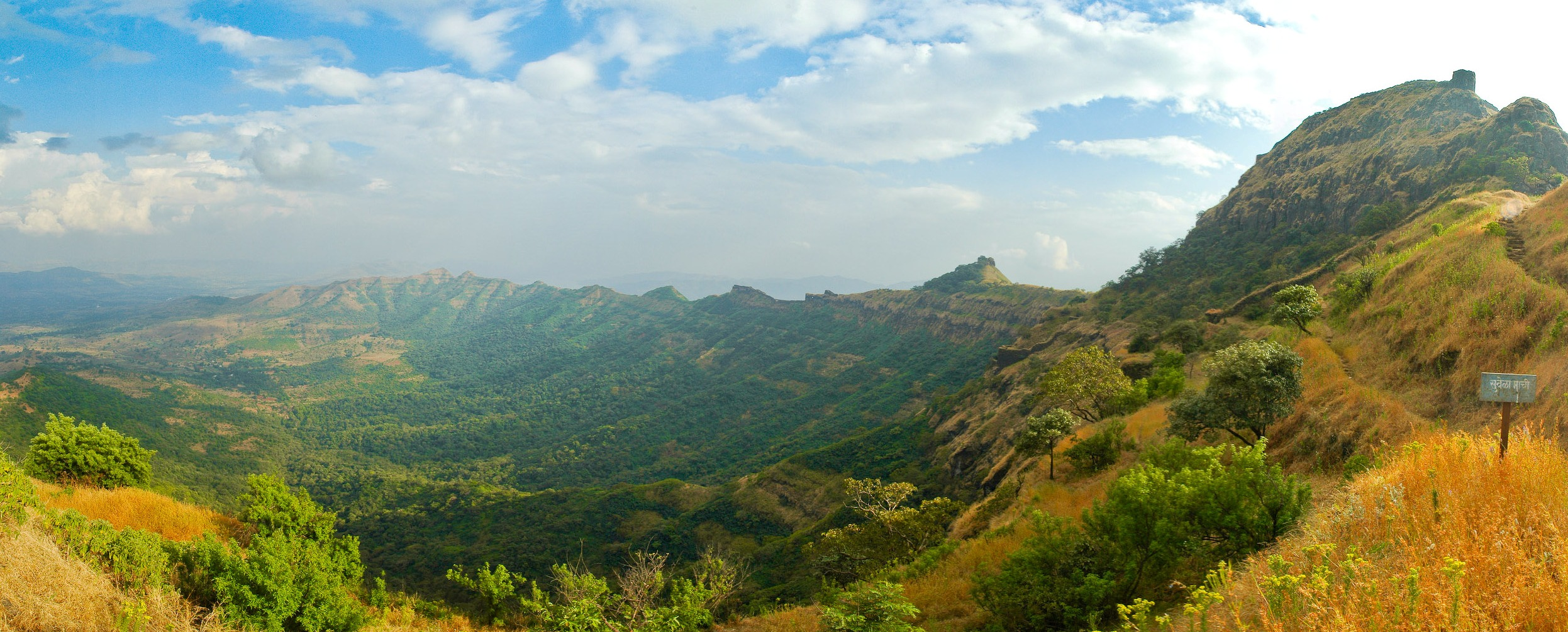 View from Rajgad, near Pune.